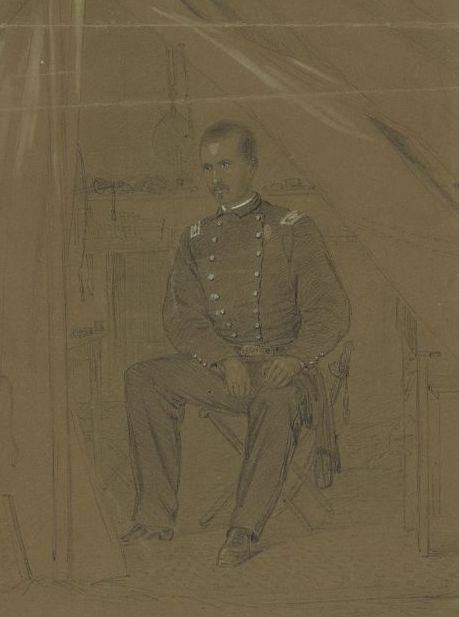 Colonel Hawkins of 9th New York Volunteer Infantry Regiment.